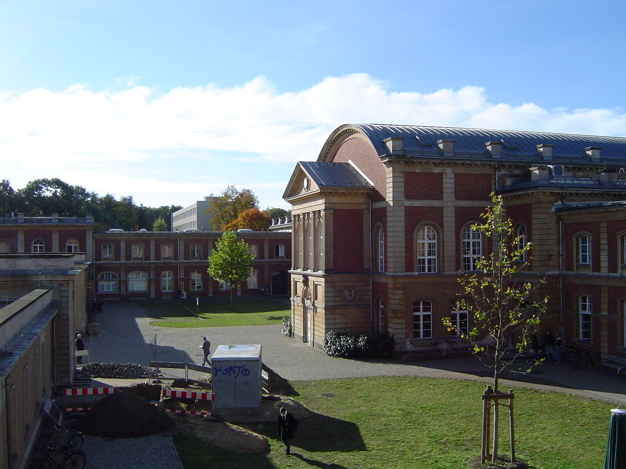 Campus of the University of Potsdam with the auditorium maximum